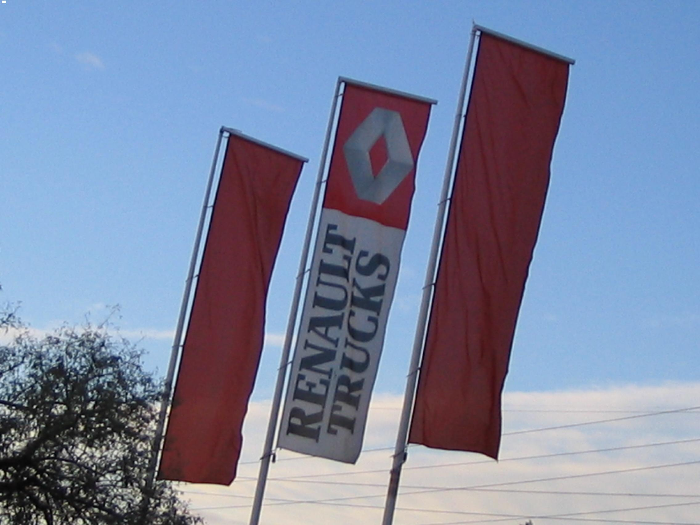 Fabric of Renault in Madrid